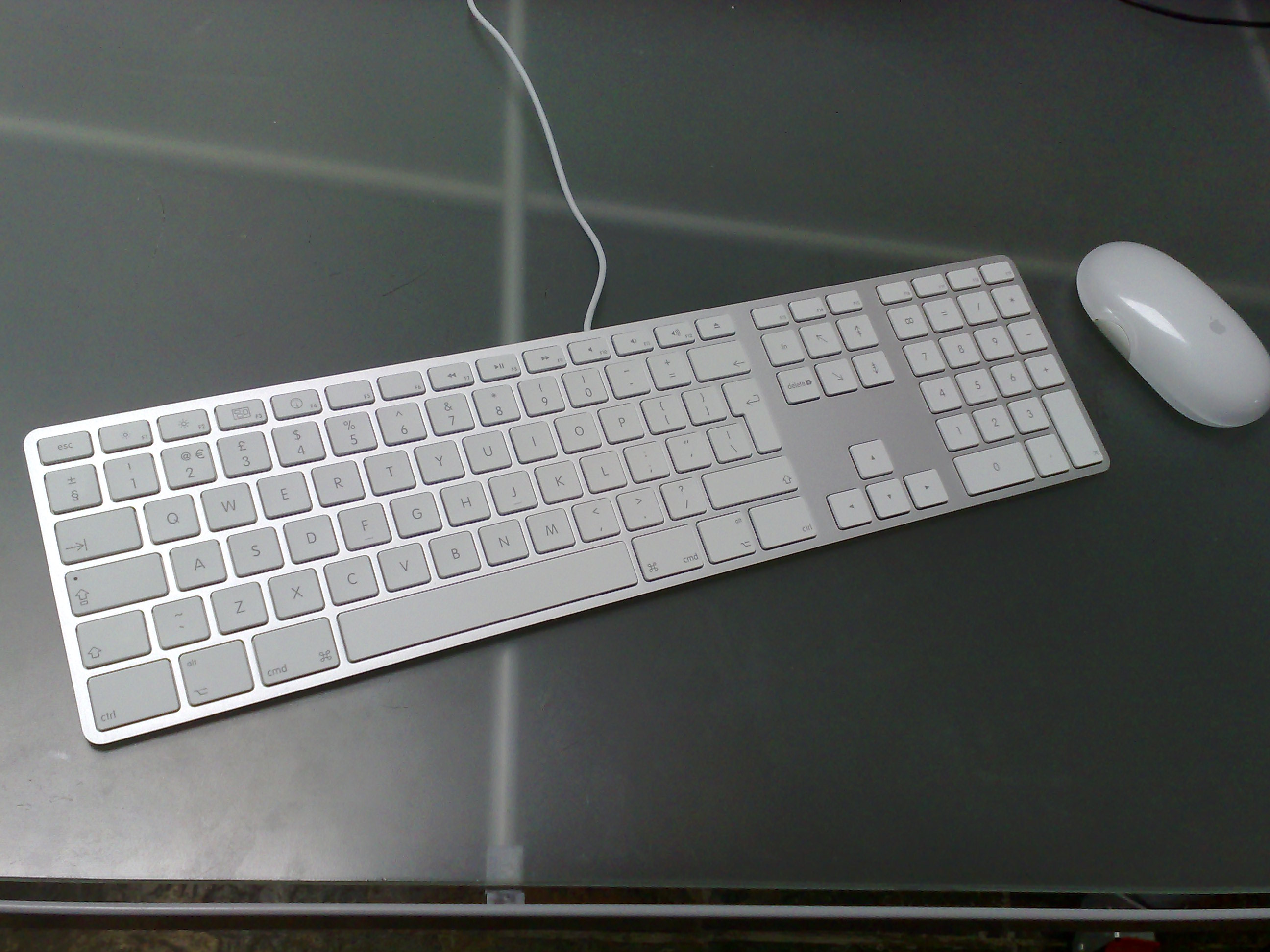 Slimline keyboard and mouse for the iPod Nano.